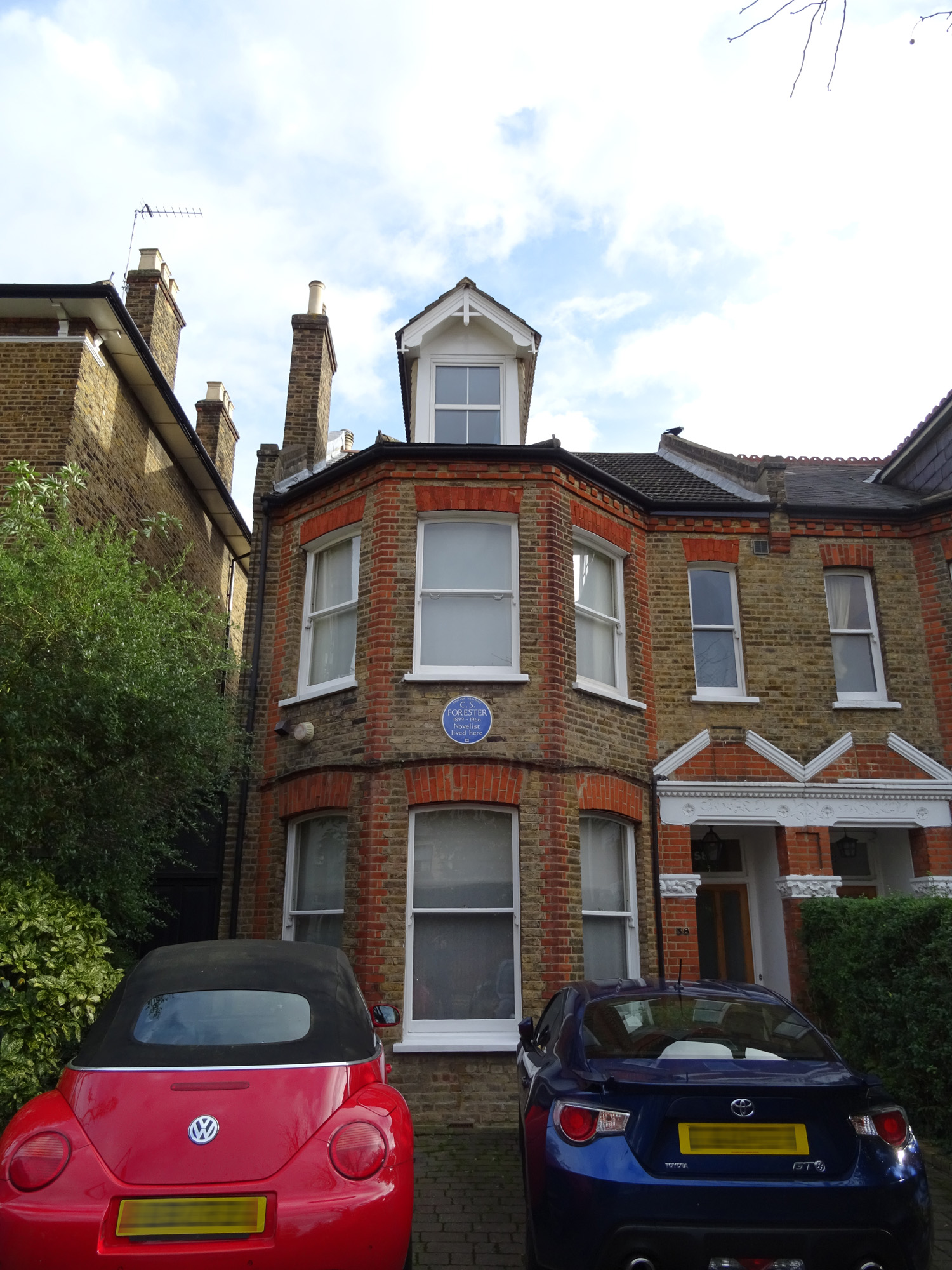 C. S. FORESTER 1899-1966 Novelist lived here 58 Underhill Road East Dulwich London SE22 0QT